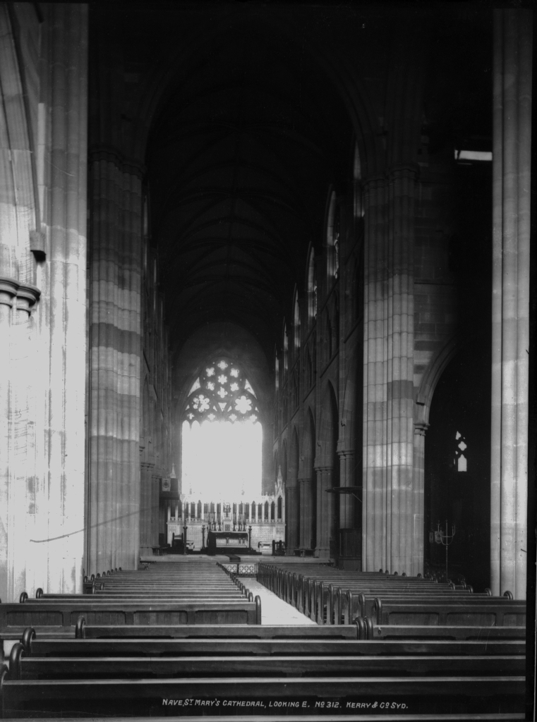 'Sydney City' Pictures from The Powerhouse Museum This files was posted to Flickr by The Powerhouse Museum (See their website for further information). Many thanks to the Powerhouse Museum for helping release this wonderful material. This tag does not indicate the copyright status of the attached work. A normal copyright tag is still required. See Commons:Licensing for more information.